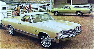 1972 Chevrolet El Camino